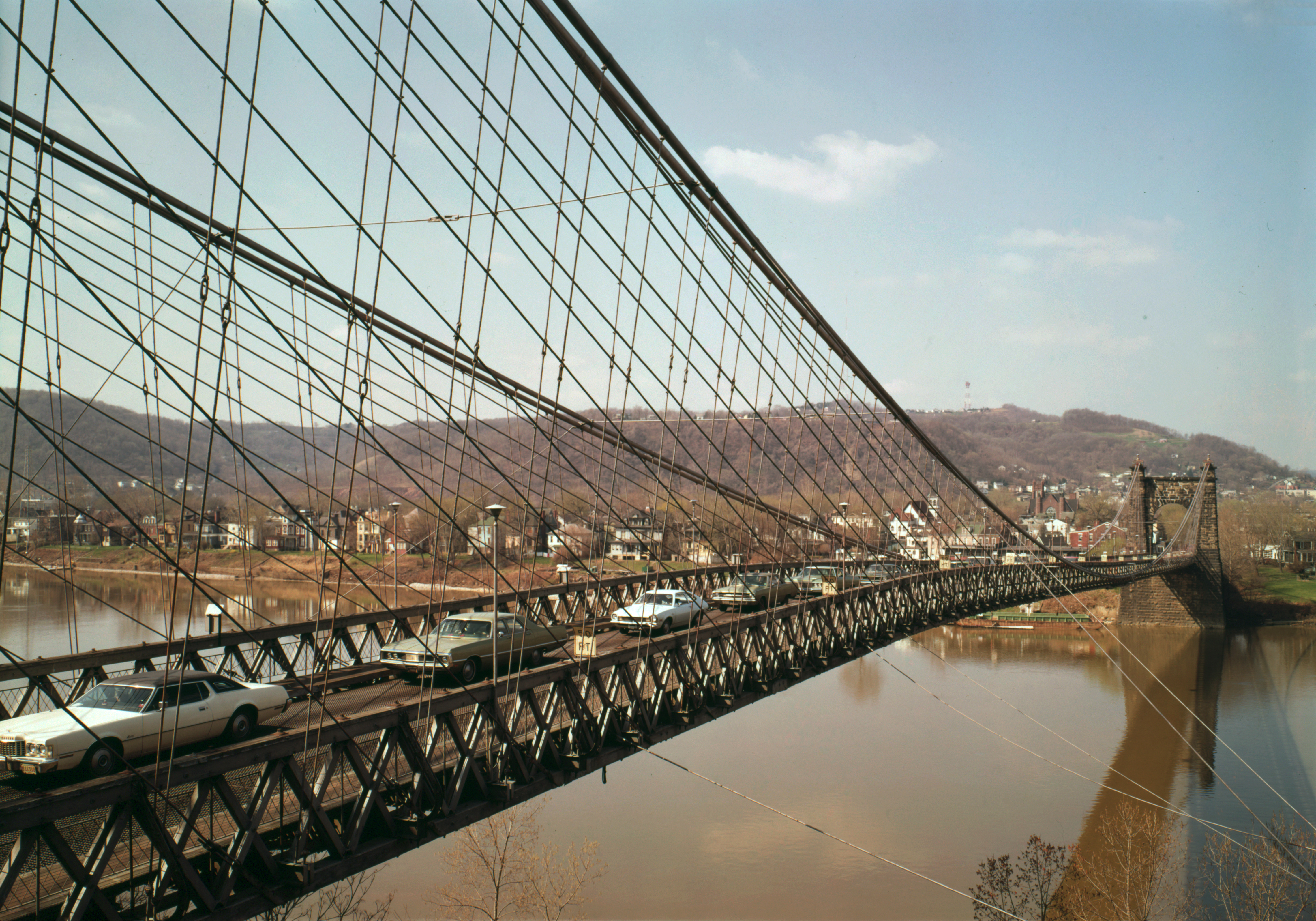 The Wheeling Suspension Bridge — a suspension bridge spanning the main channel of the Ohio River at Wheeling, West Virginia. A National Historic Civil Engineering Landmark, and National Historic Landmark.